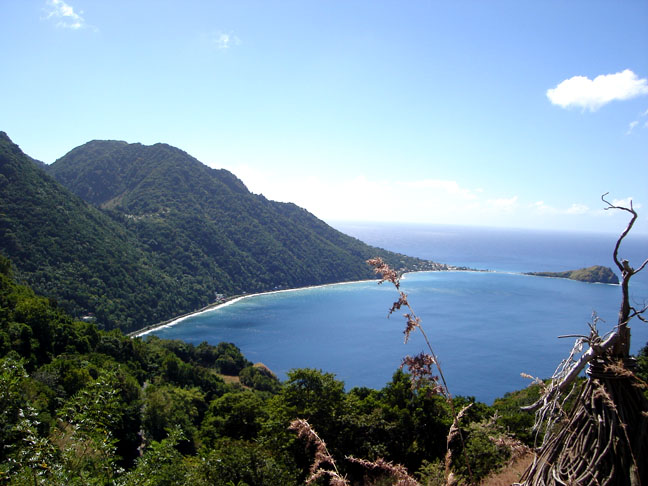 View of southern tip of Dominica.